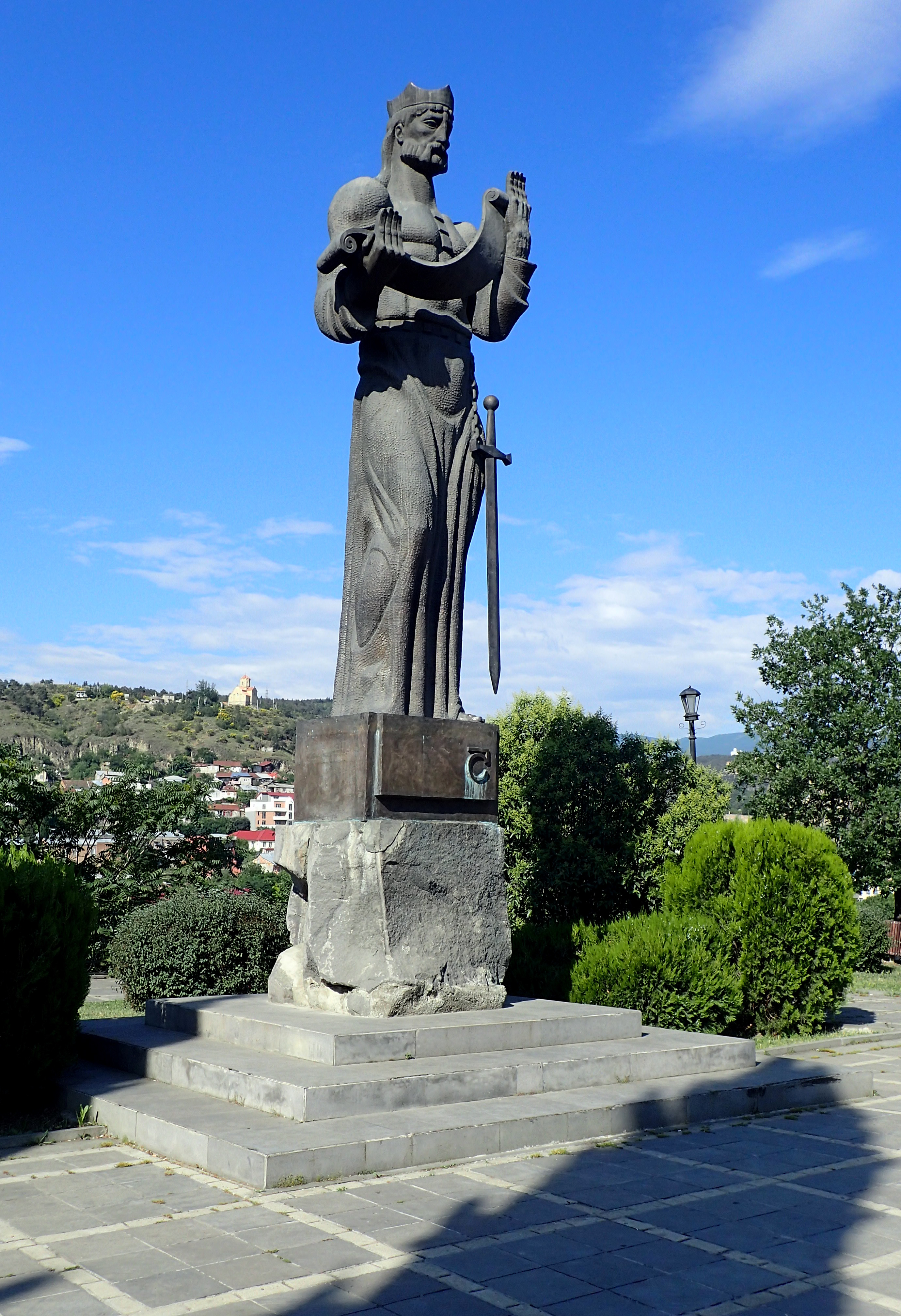 Statue of King Pharnavaz in Tbilisi